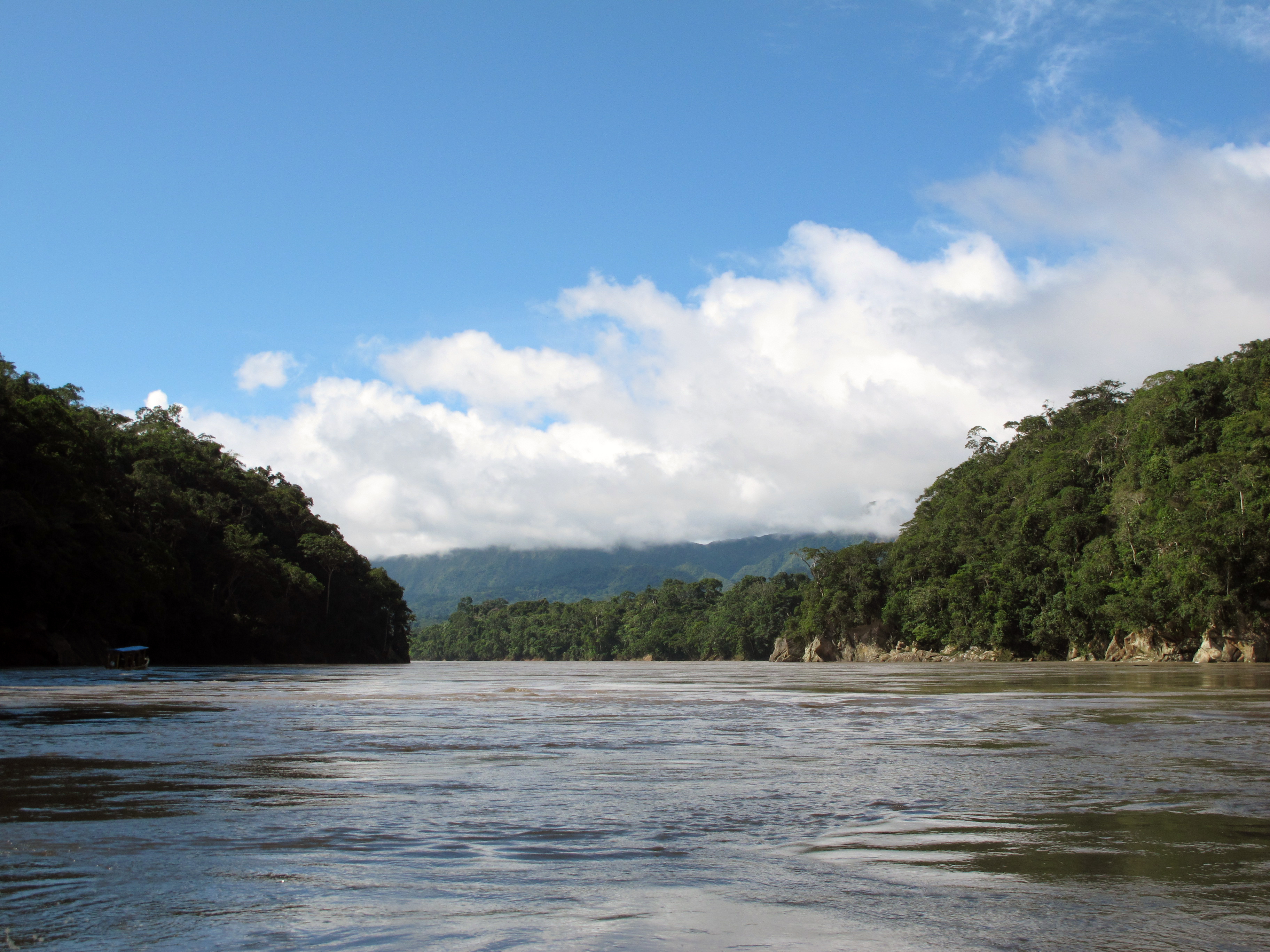 Beni River en the Amazon rainforest in Bolivia